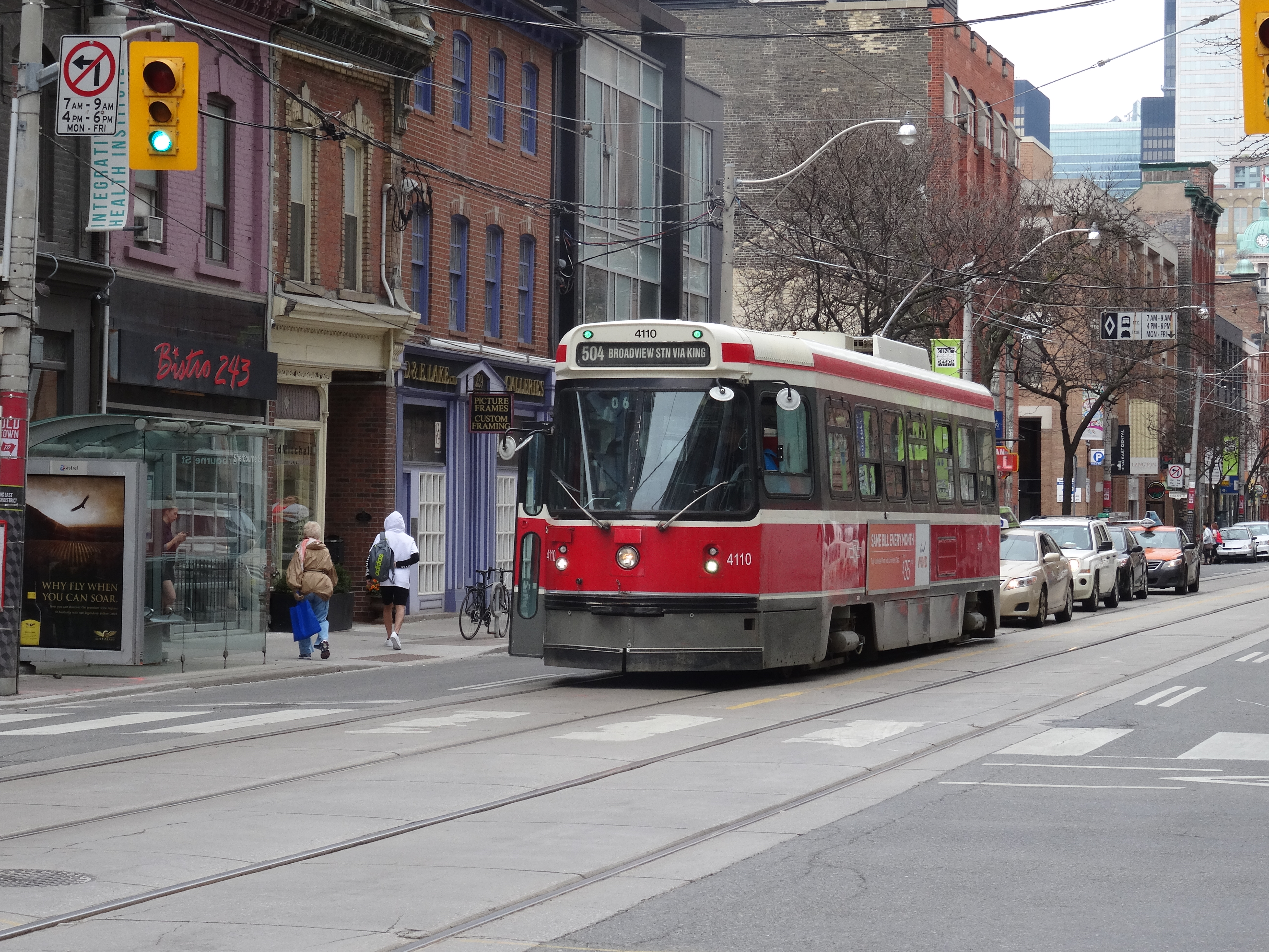 Streetcar visible from Sherbourne and King, 2015 05 05 (1)